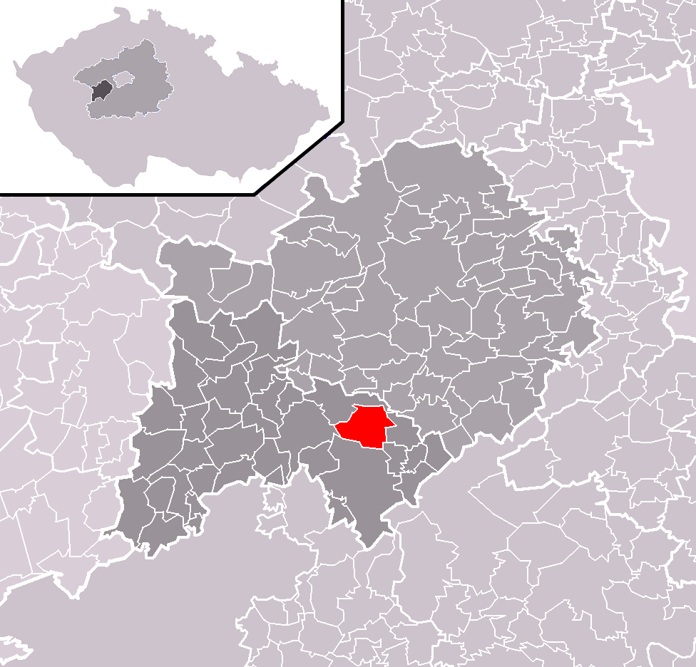 Location of Neumětely municipality within Beroun District and administrative area of Hořovice as a Municipality with Extended Competence.